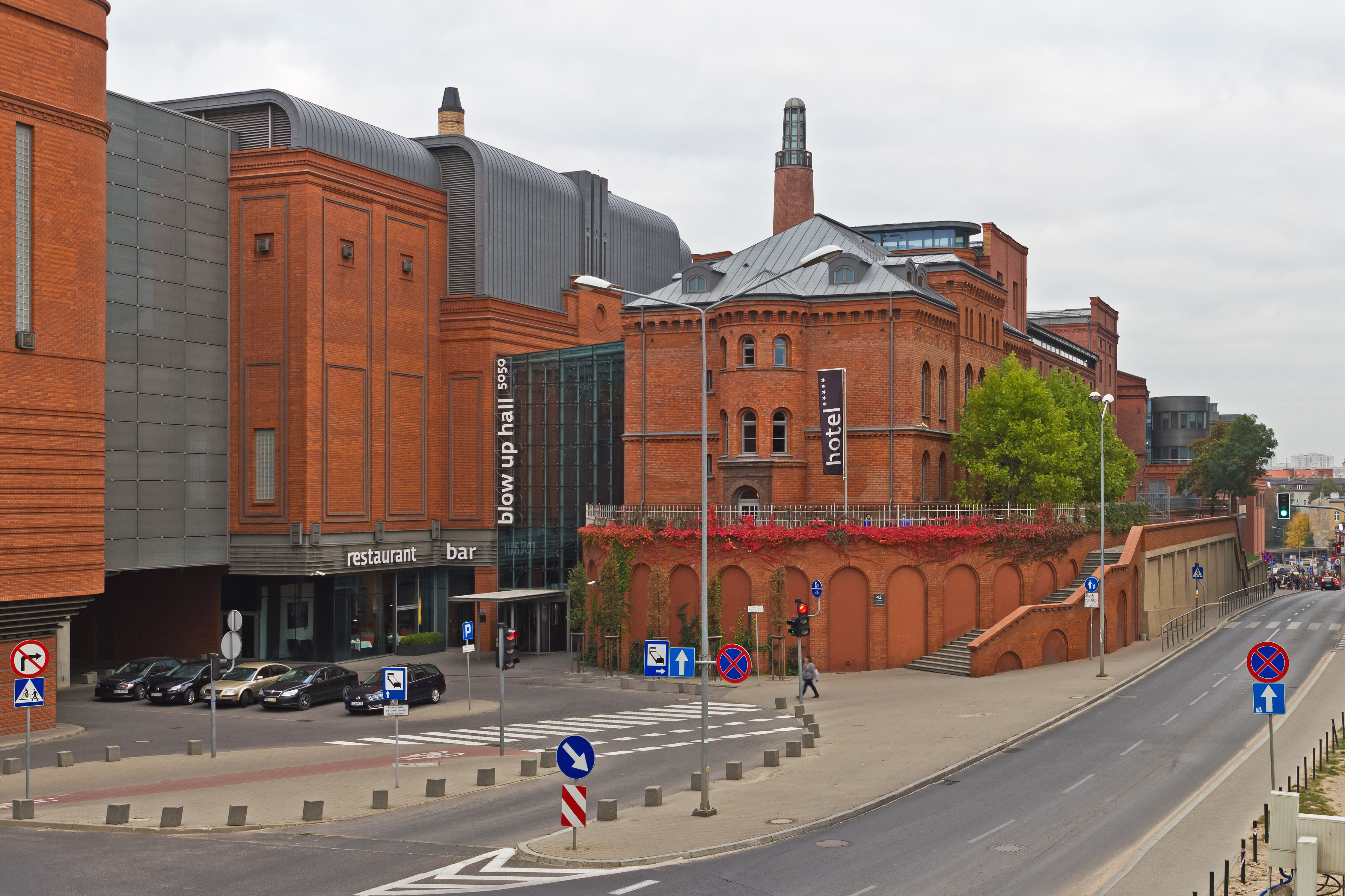 Old Brewery (Stary Browar) in Poznań, Greater Poland